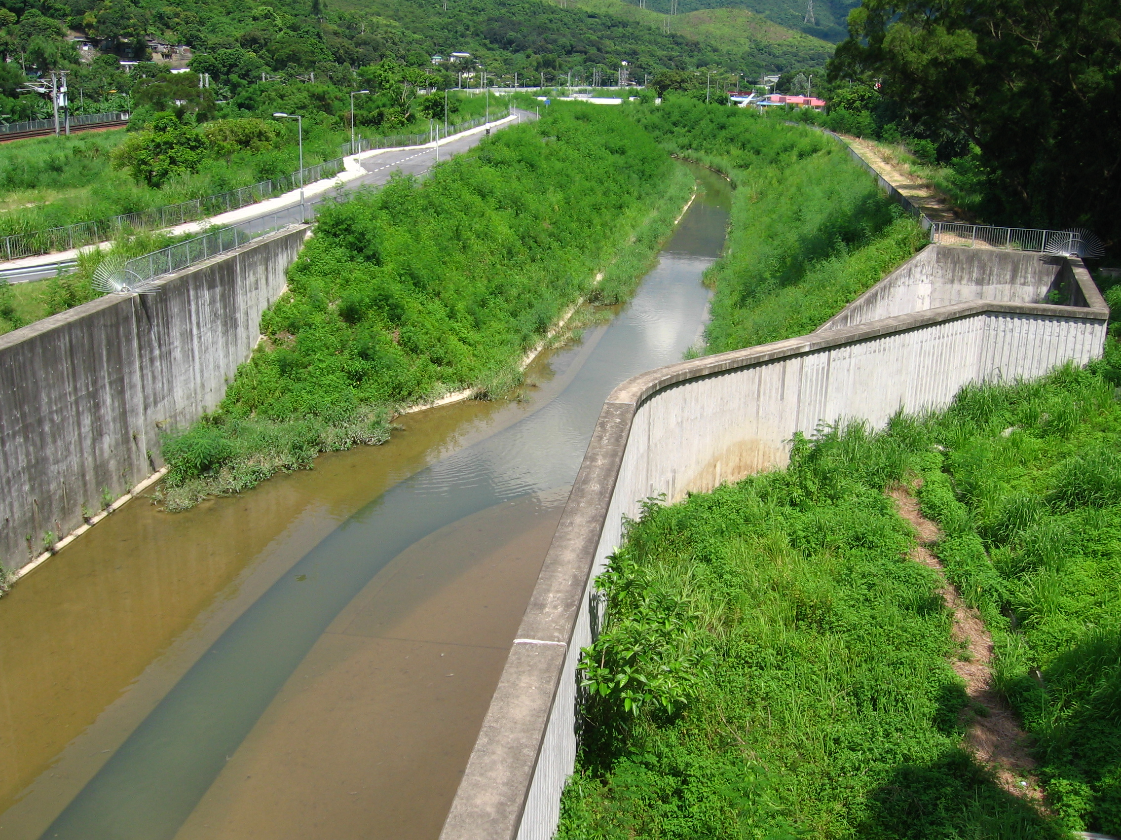 Ma Wat River near Tong Hang, 2010